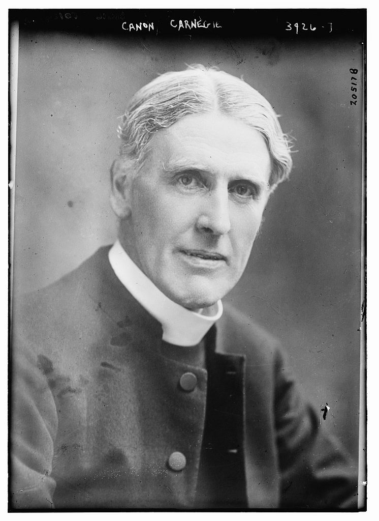 Reverend William Hartley Carnegie in 1916